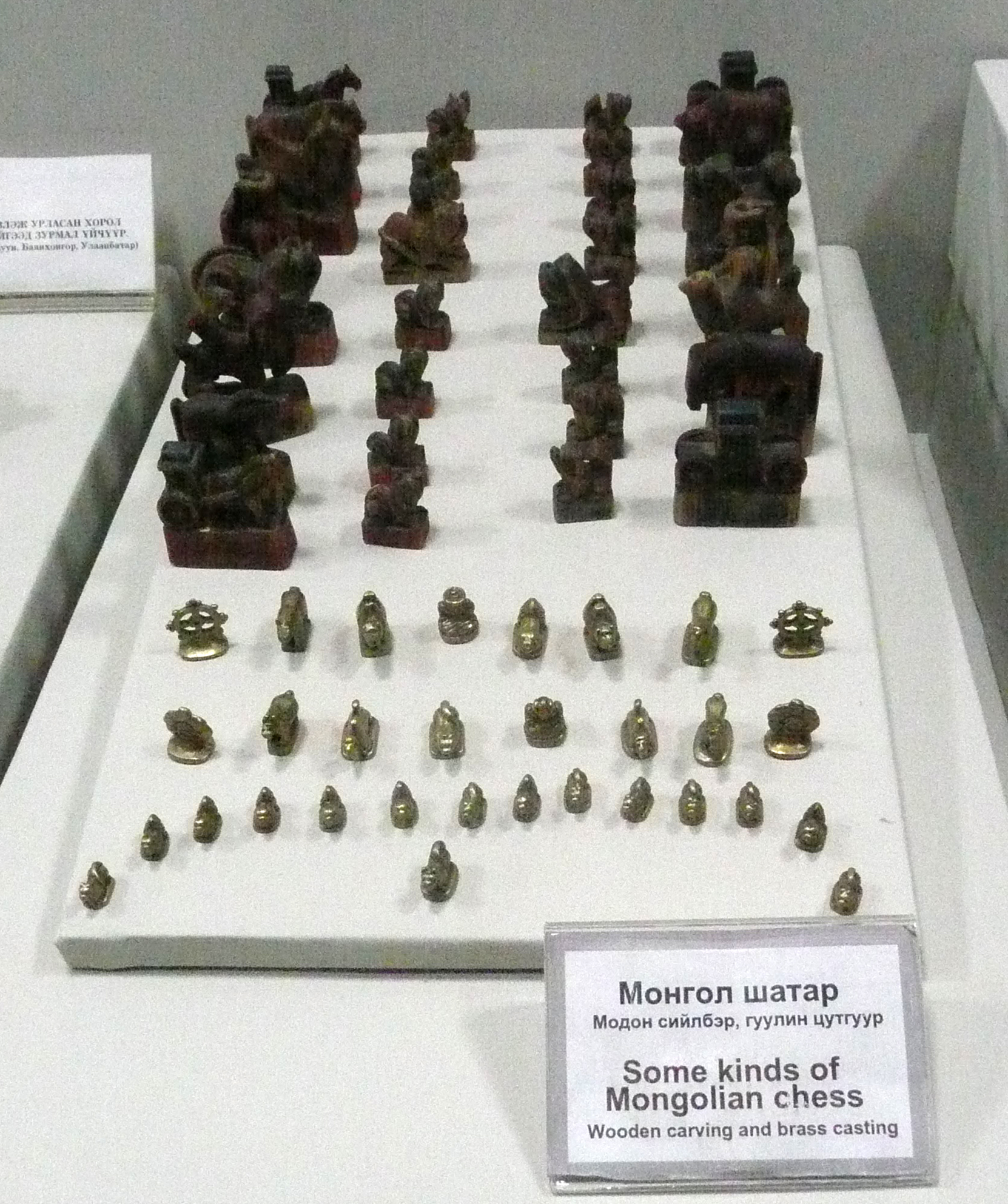 Mongolian Chess, photo taken in the National Museum of Mongolia in Ulan Bator